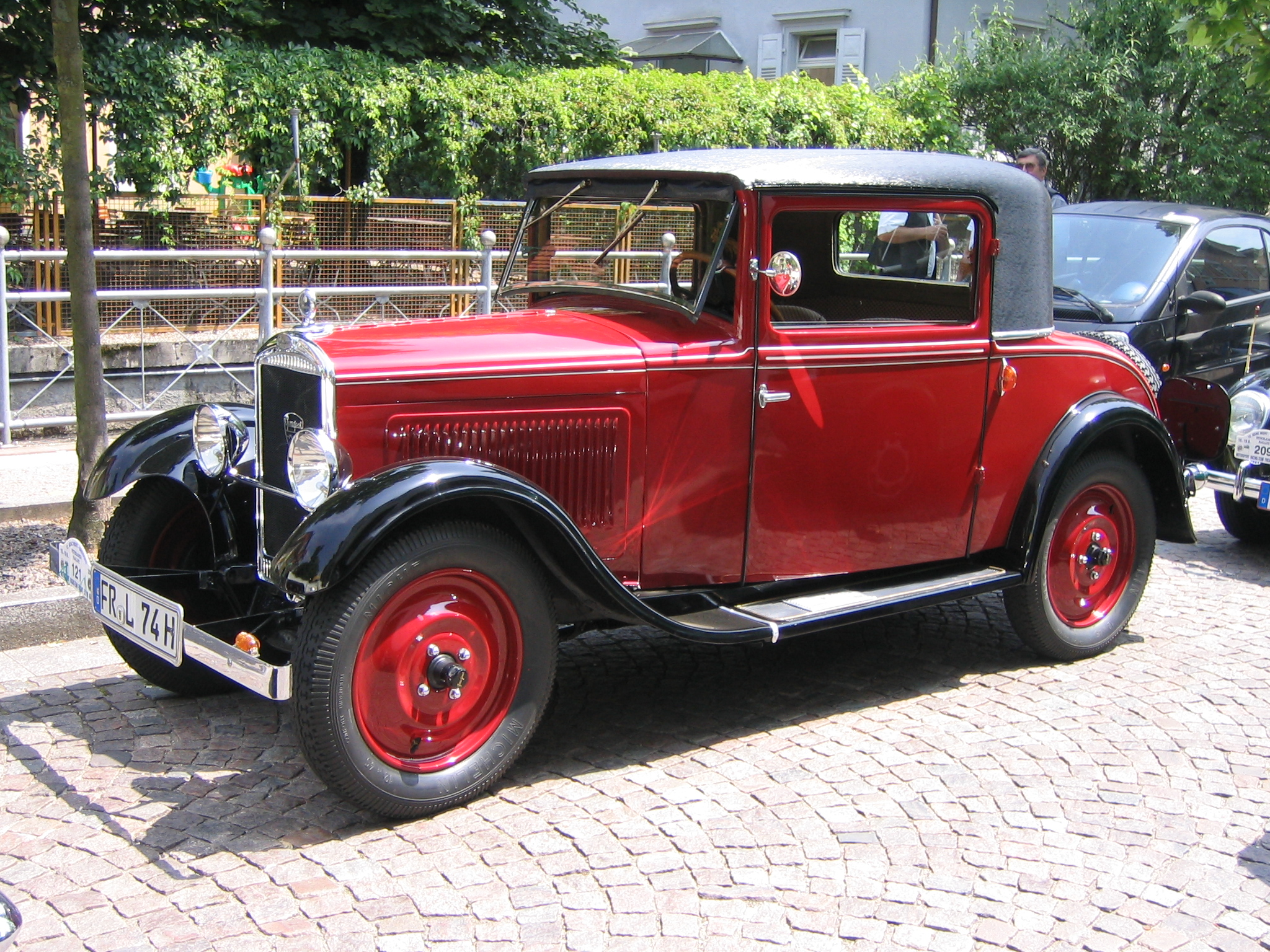 Peugeot 201, recorded during an oldtimer meeting at Emmendingen, Germany